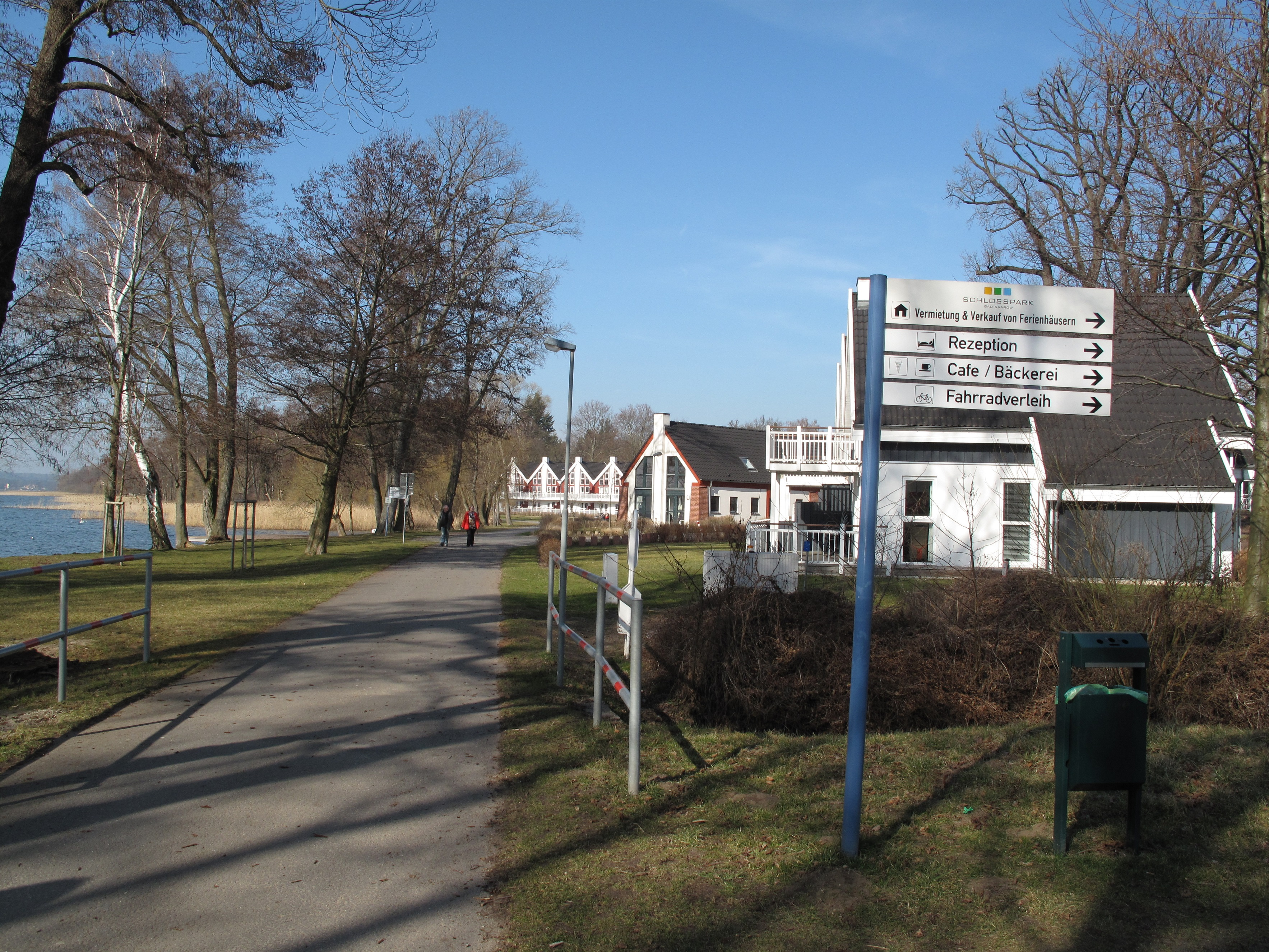 Holiday village Schlosspark Bad Saarow at the eastern bank of the Scharmützelsee in Theresienhof. Theresienhof is a part (settlement, estate; german: Wohnplatz) of Bad Saarow, District Oder-Spree, Brandenburg, Germany. Originating as the watermill Pieskow the Theresienhof was an agricultural establishment for a long time. Under the name Theresienhof it was first mentioned in documents in 1851. Since 1918 it was used as recreation resort, holiday home or educational training center. In 2008 the main building (a villa or manor house, often referred to as a castle) was demolished. The holiday village Schlosspark Bad Saarow with about 140 holiday houses and accomodations in scandinavian style has been created on the site of the Theresienhof since 2008.